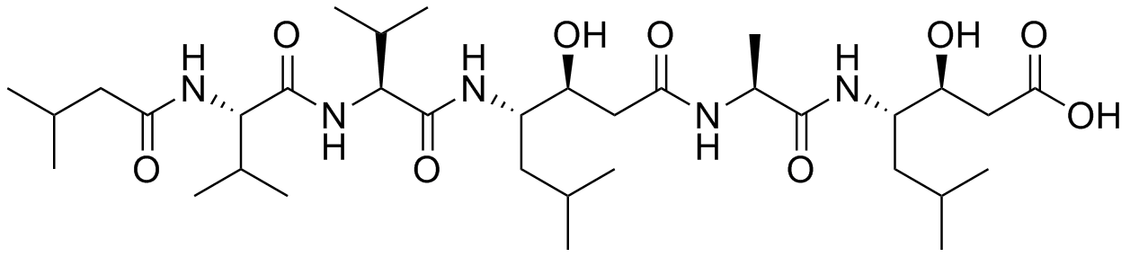 Structure of pepstatin